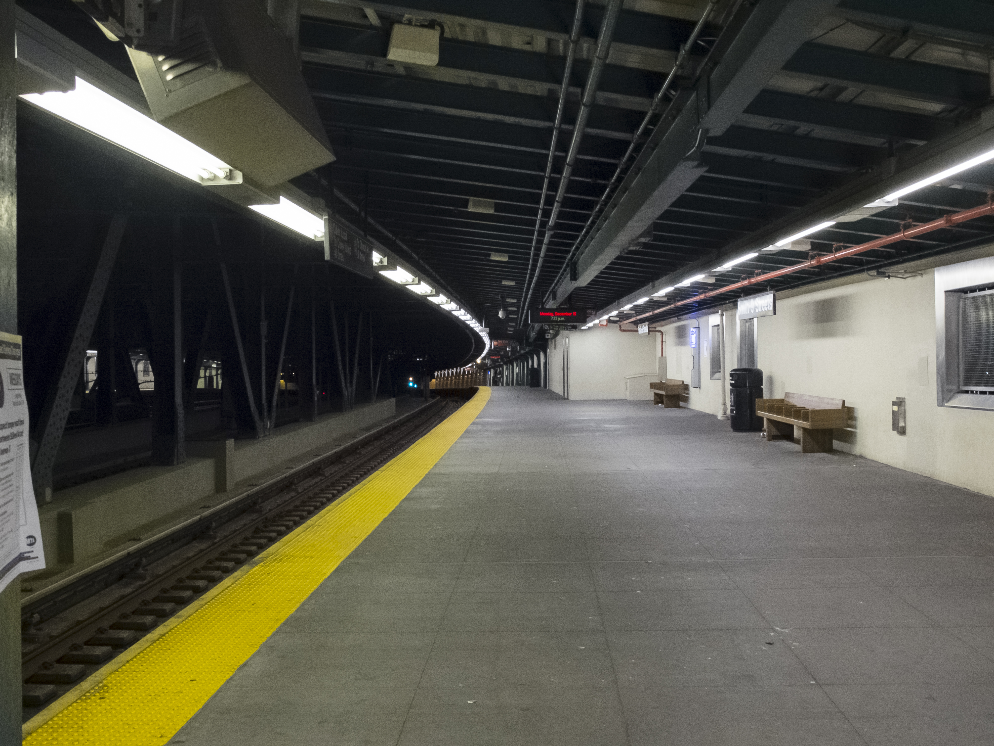 Smith and 9th station